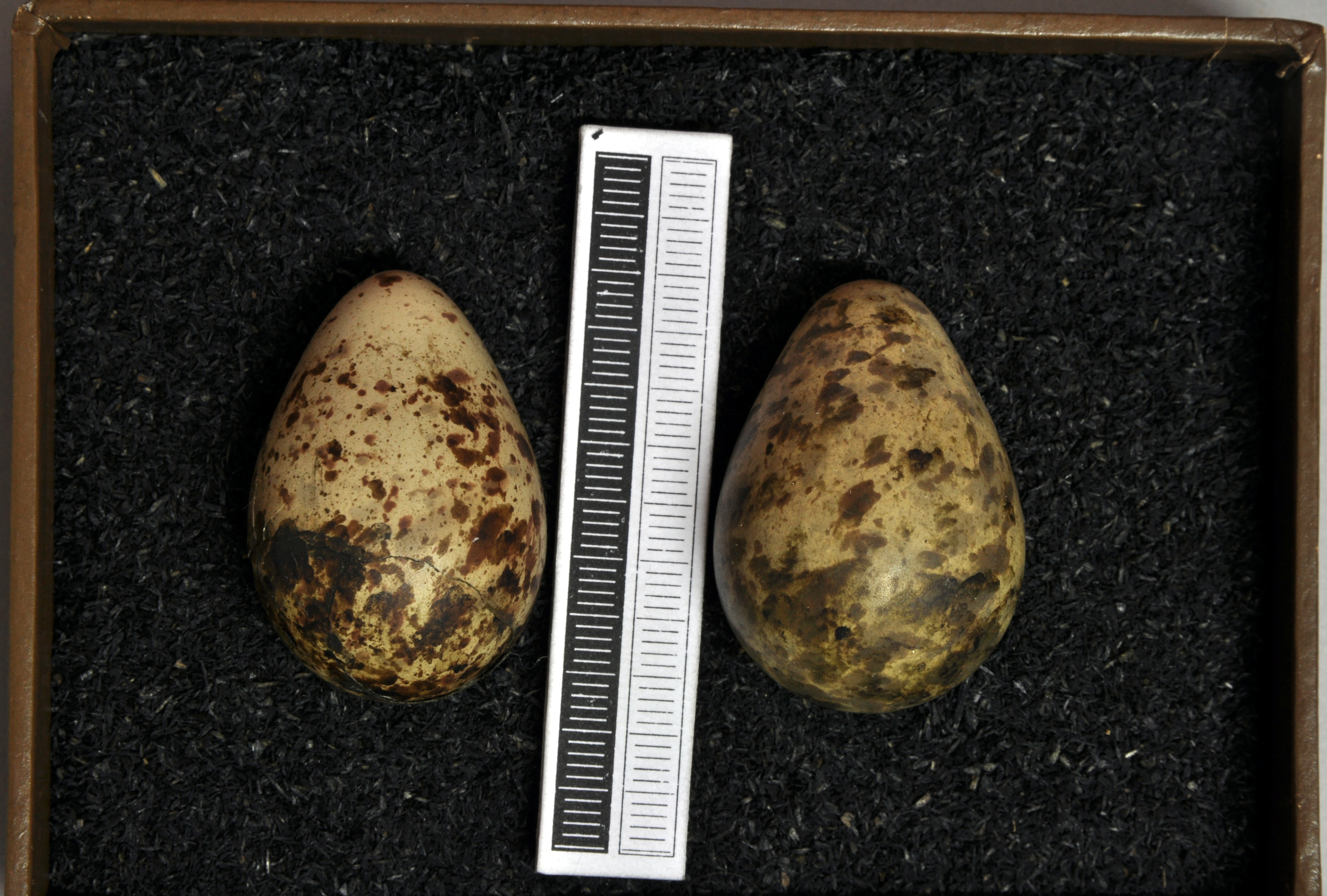 Jack snipe Lymnocryptes minimus , egg, Coll. Museum Wiesbaden